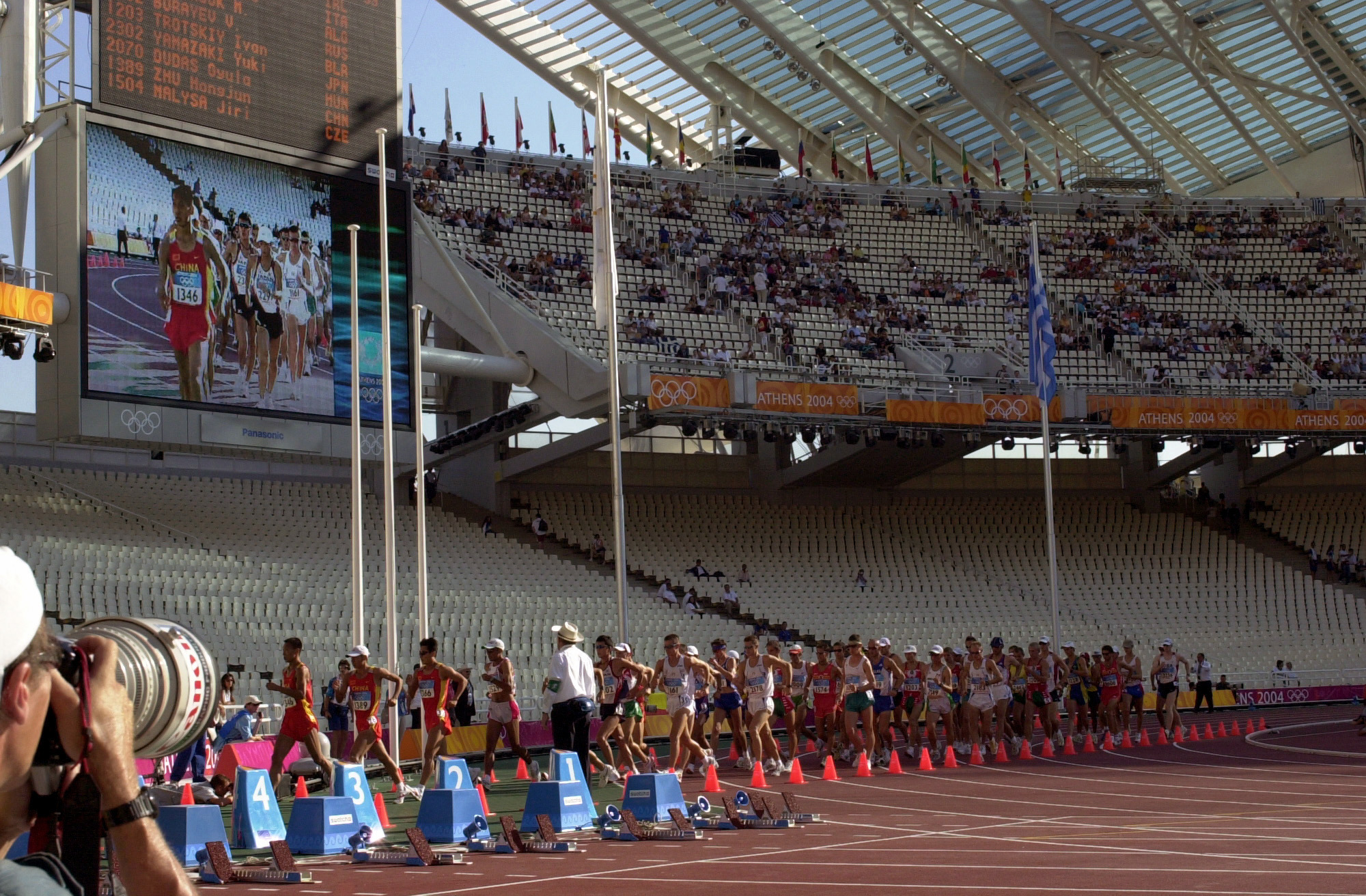 U.S. Army Sgt. John Nunn and U.S. Air Force Capt. Kevin Eastler, along with other competitors, compete in the 20K Racewalk competition during the 2004 Olympics at the Olympic Stadium in Athens, Greece.